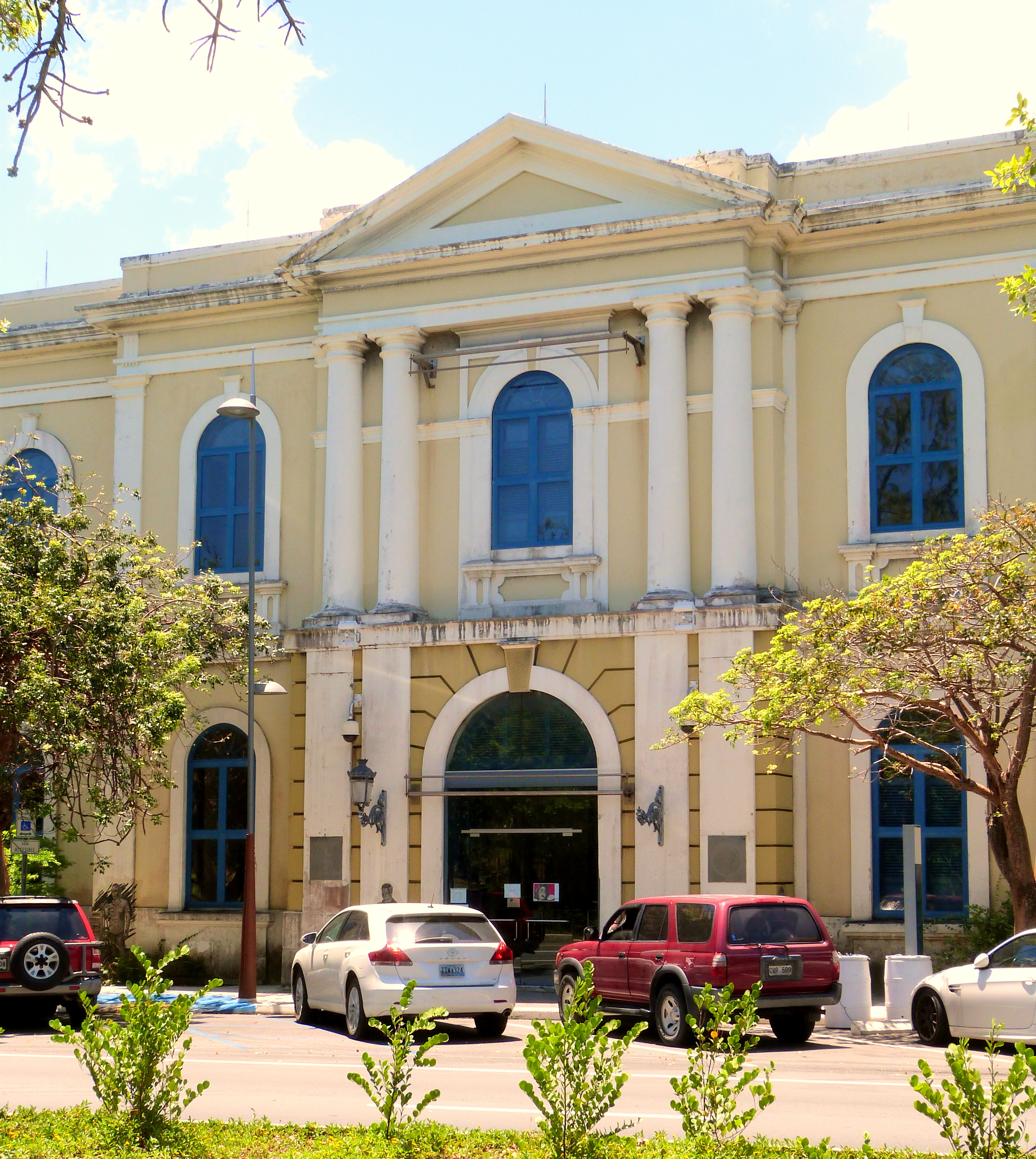 Main entrance of the Puerto Rico National Library facing Avenida Ponce de León and Luis Muñoz Rivera Park in Old San Juan, Puerto Rico.